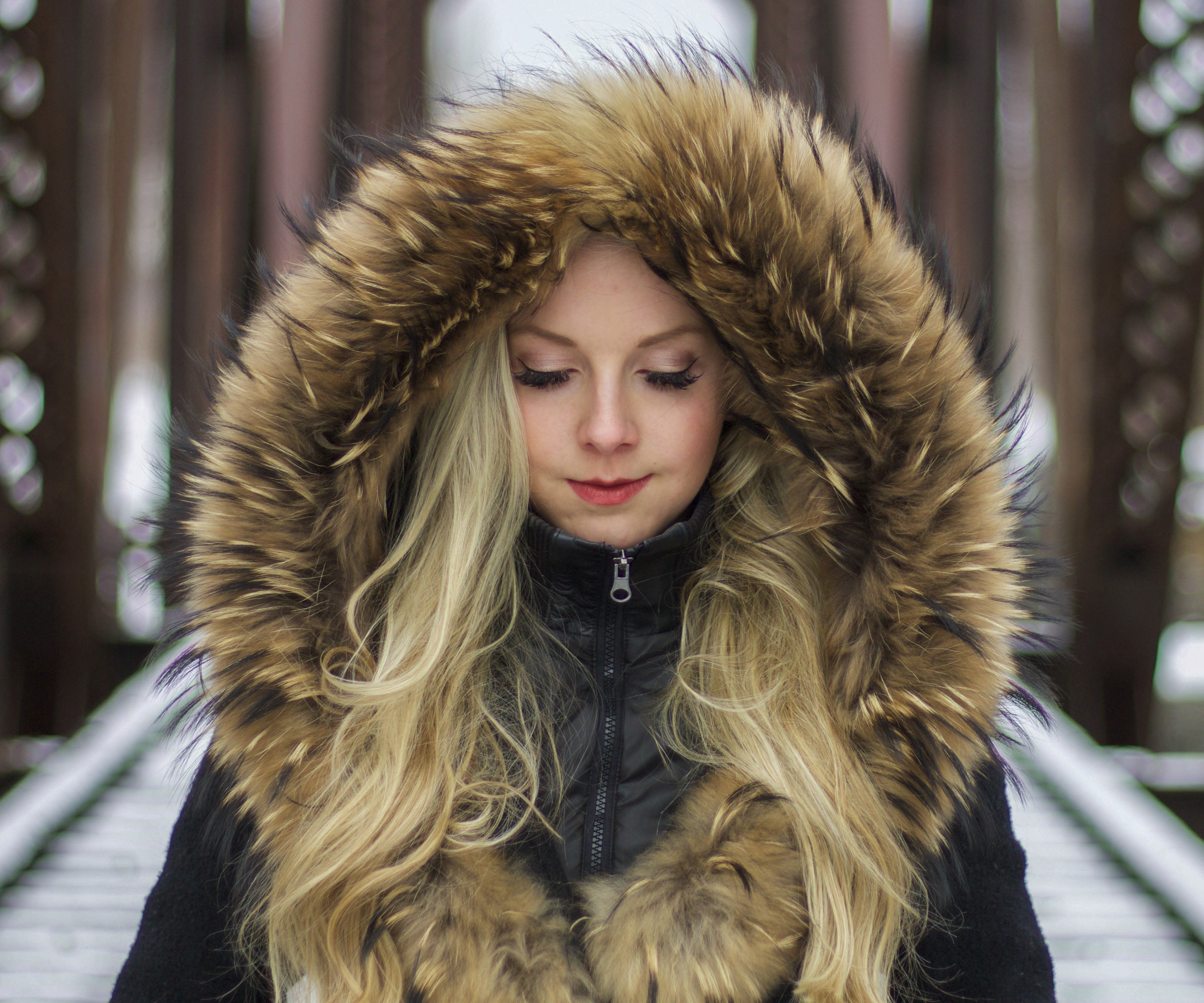 Sherbrooke, Canada